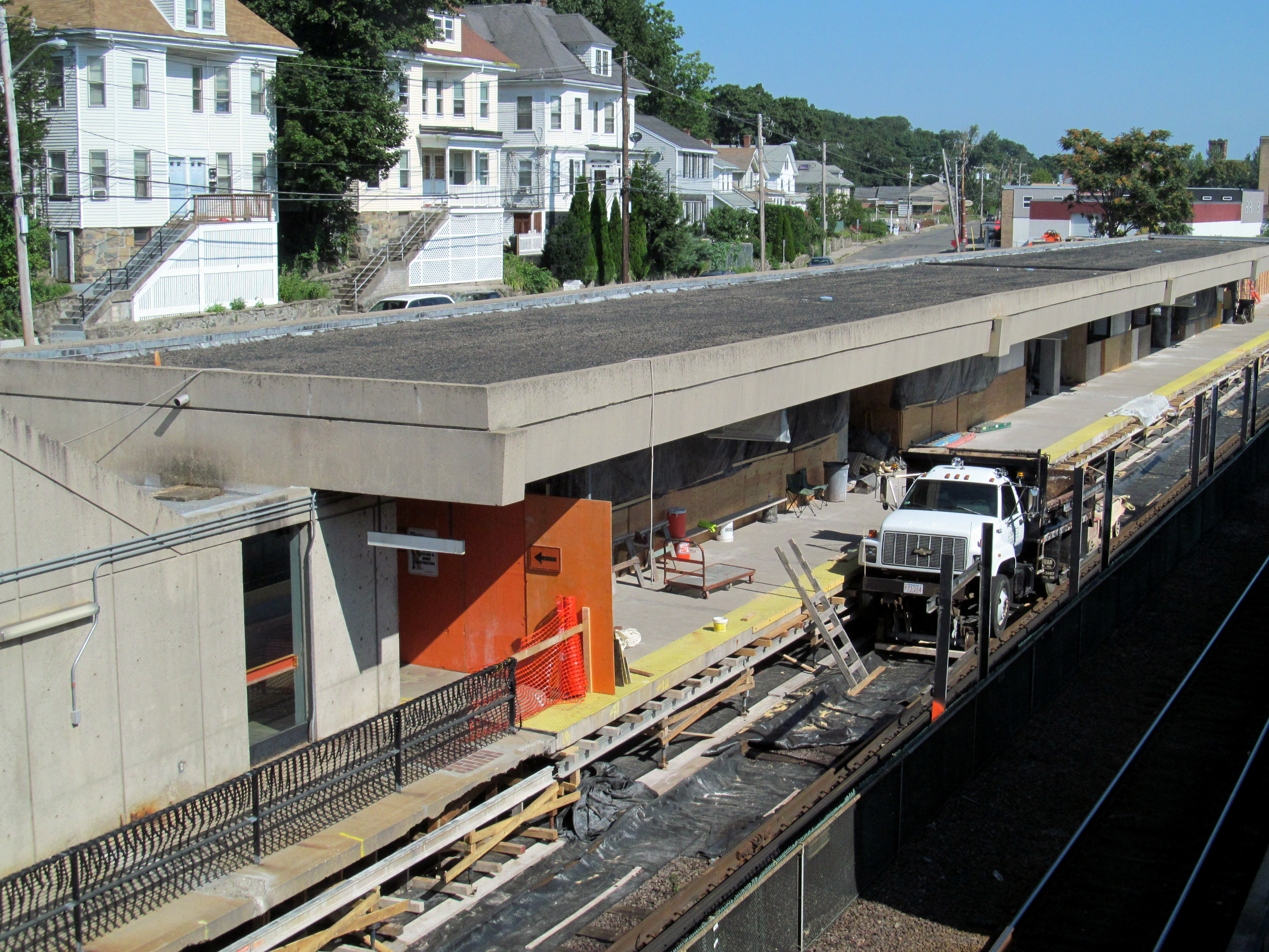 A hi-rail truck sits at the Orange Line platform at Oak Grove in August 2013 during work on the Oak Grove Platform Rehabilitation Project. The station, built in 1977, was getting a facelift and necessary repairs to crumbling concrete.